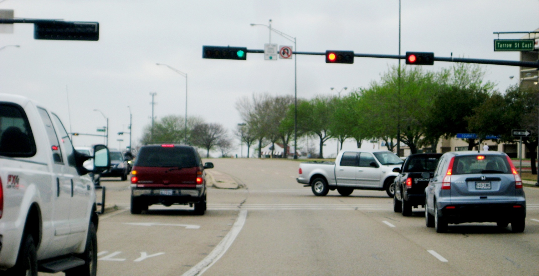 Example of solid green indication over a left turn lane while the through indications are red.